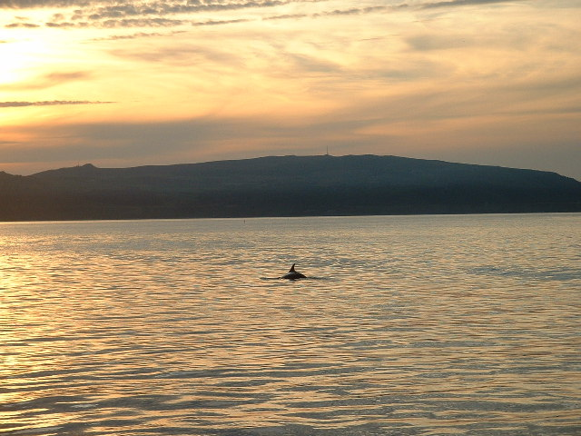 Porth Neigwl Bay [Hell's Mouth Bay] A bottlenose dolphin fishing in the last of the day's sunshine.